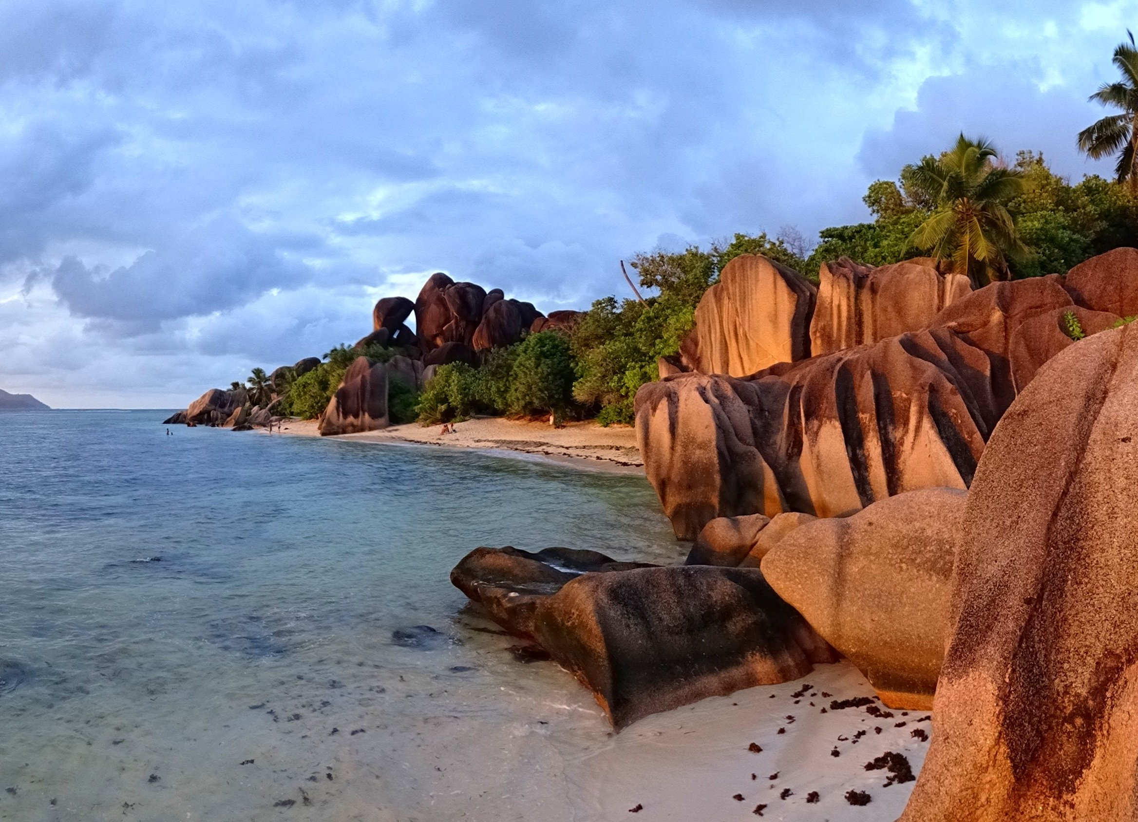 Anse Source d'Argent beach on the west coast of La Digue, Seychelles.